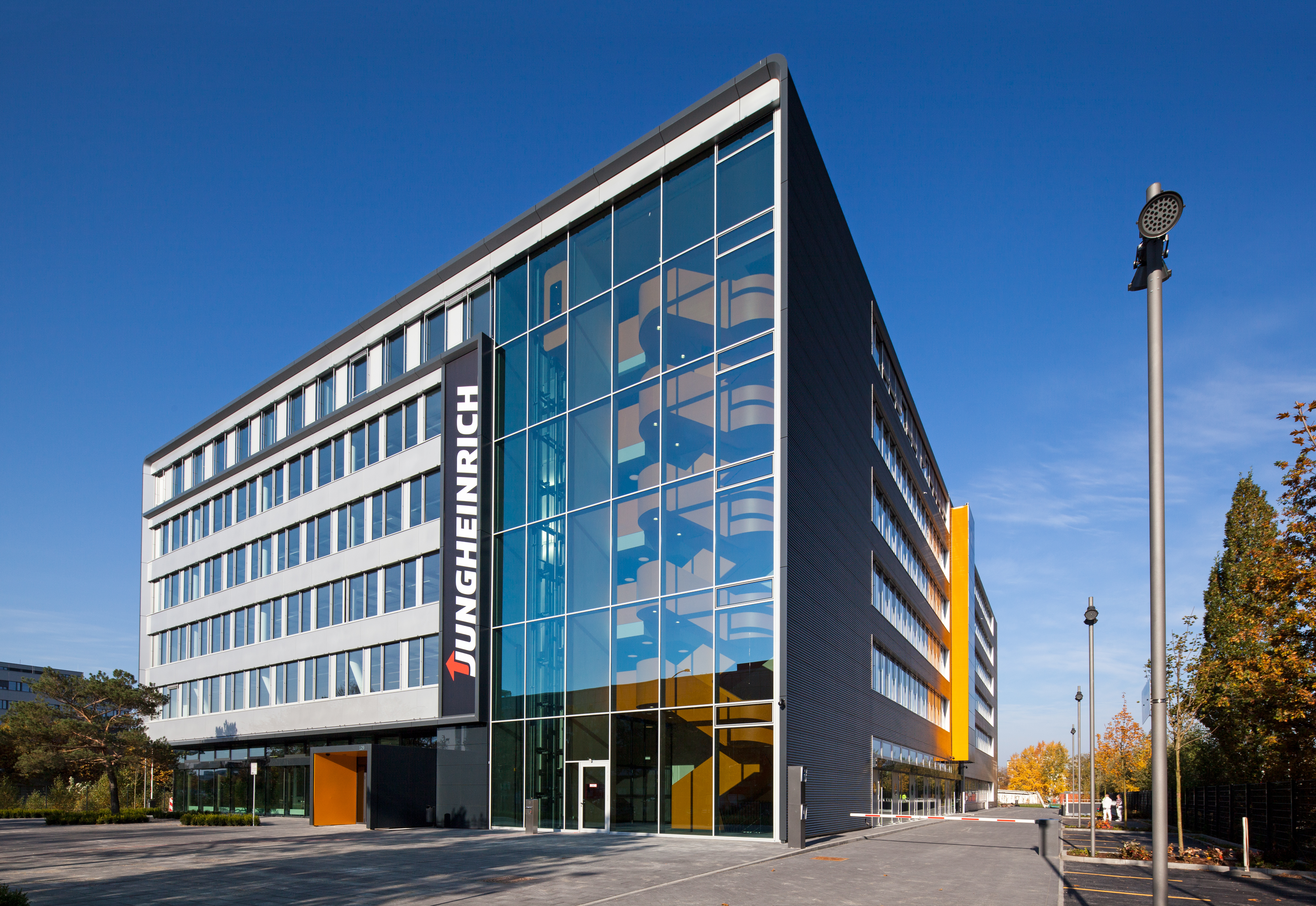 Neubau Konzernzentrale Jungheinrich AG, Friedrich-Ebert-Damm, Hamburg-Wandsbek, Prof. Sill Architekten